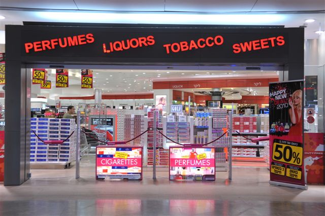 James Richardson Duty Free shop in Ben-Gurion airport, isrel